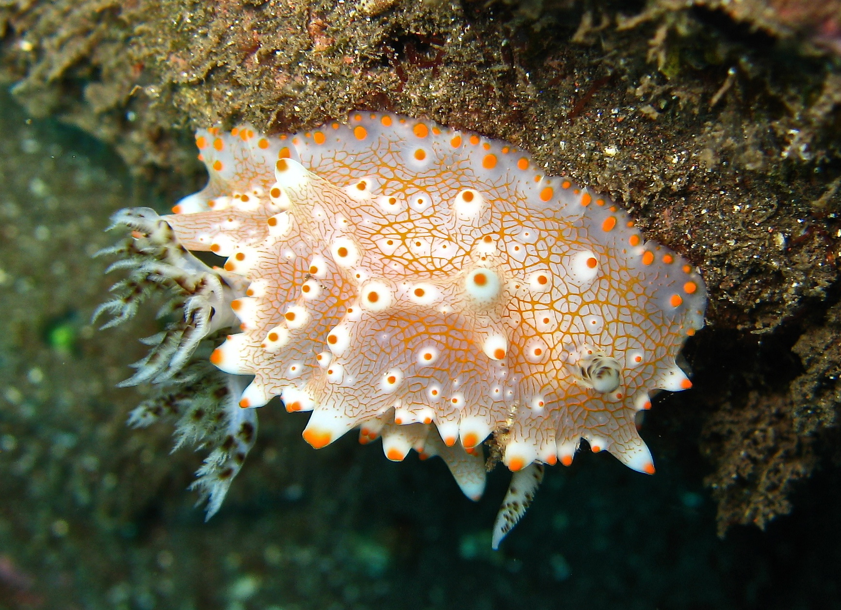 Halgerda batangas at Tulamben, Bali, Indonesia